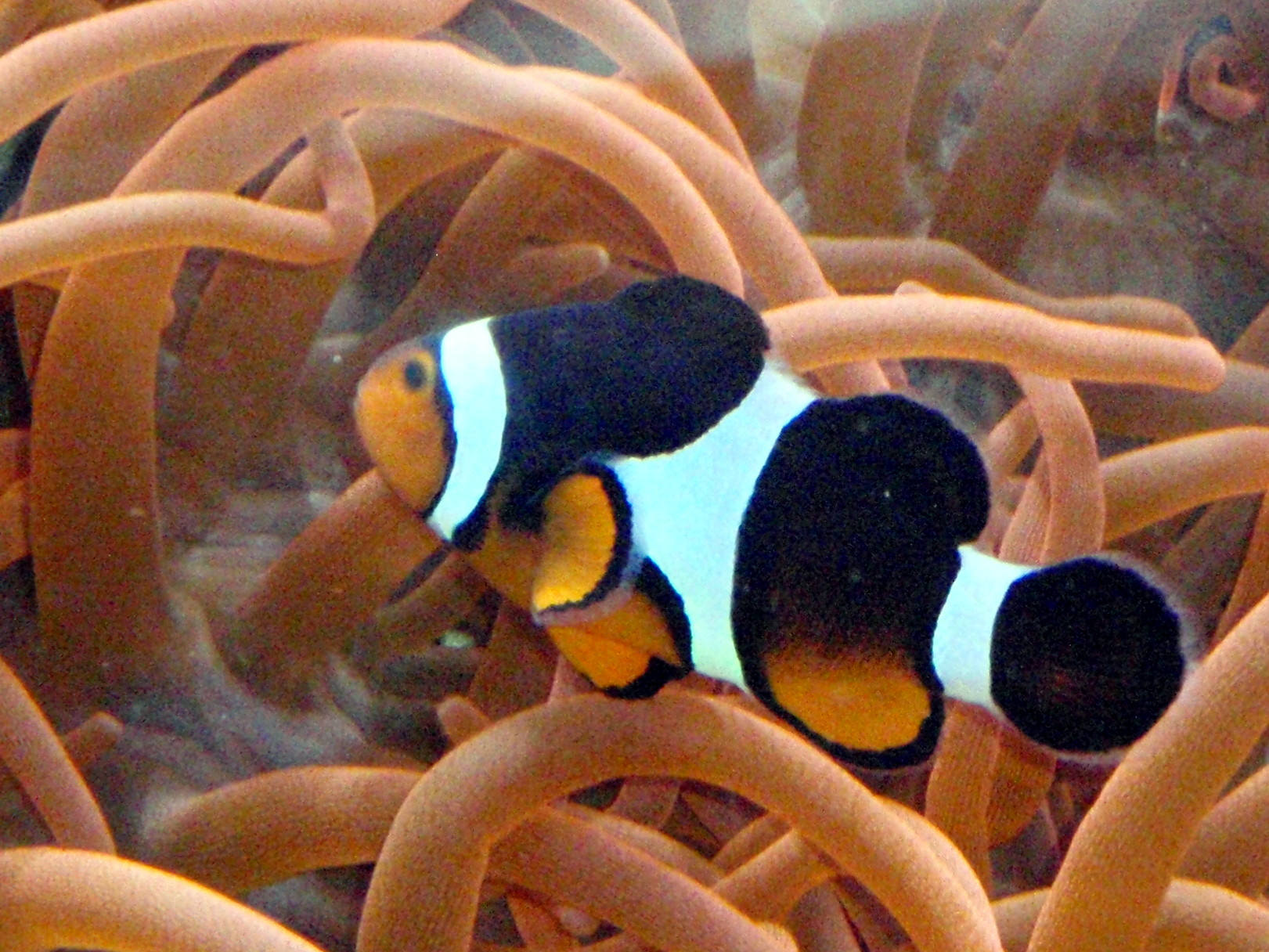 Clownfish